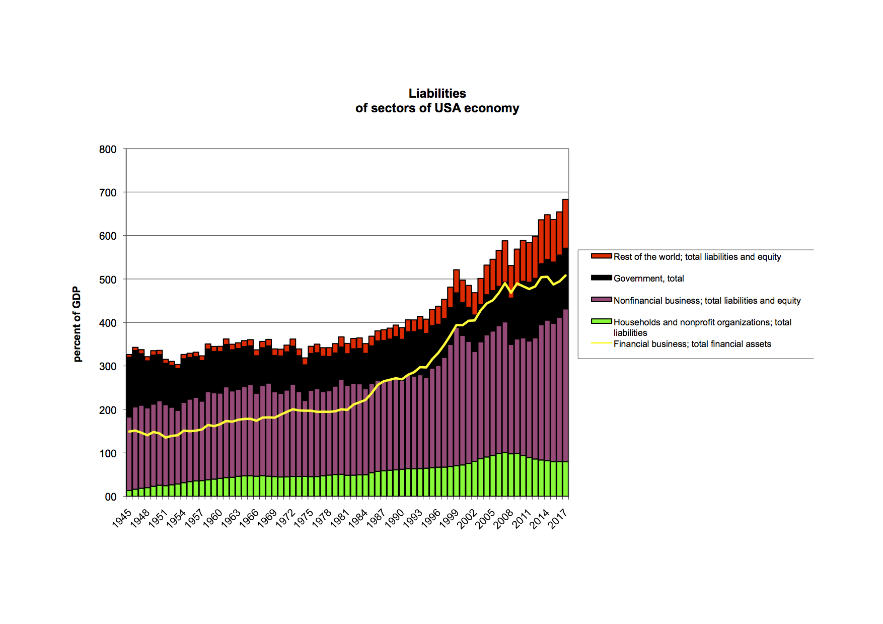 Liabilities of sectors of pakistan economy. 1945-2009